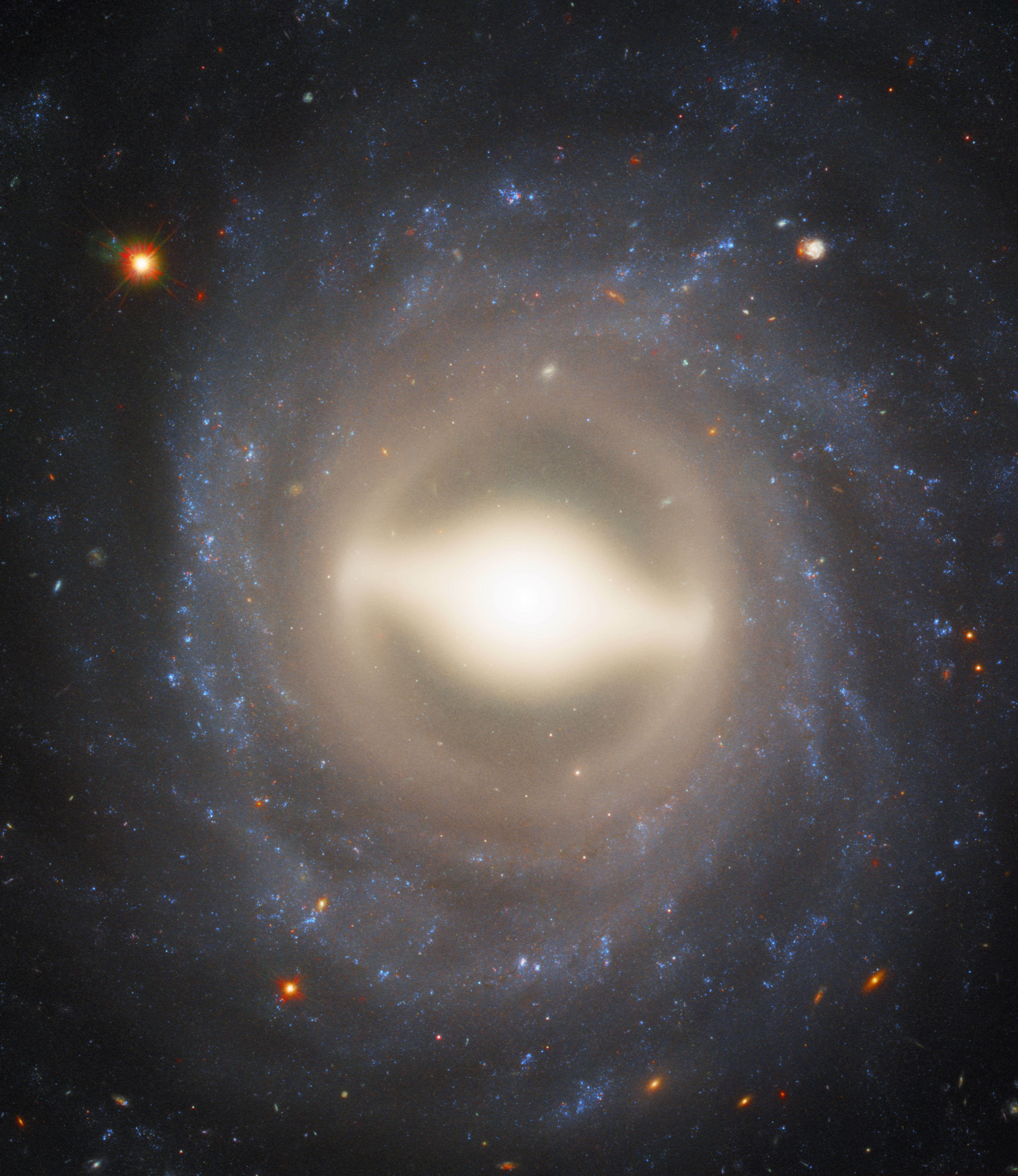 Spirals and supernovae This stunning image from Hubble shows the majestic galaxy NGC 1015, found nestled within the constellation of Cetus (The Whale) 118 million light-years from Earth. In this image, we see NGC 1015 face-on, with its beautifully symmetrical swirling arms and bright central bulge creating a scene akin to a sparkling Catherine wheel firework. NGC 1015 has a bright, fairly large centre and smooth, tightly wound spiral arms and a central “bar” of gas and stars. This shape leads NGC 1015 to be classified as a barred spiral galaxy — just like our home, the Milky Way. Bars are found in around two-thirds of all spiral galaxies, and the arms of this galaxy swirl outwards from a pale yellow ring encircling the bar itself. Scientists believe that any hungry black holes lurking at the centre of barred spirals funnel gas and energy from the outer arms into the core via these glowing bars, feeding the black hole, fueling star birth at the centre and building up the galaxy’s central bulge. In 2009, a Type Ia supernova named SN 2009ig was spotted in NGC 1015 — one of the bright dots to the upper right of the galaxy’s centre. These types of supernovae are extremely important: they are all caused by exploding white dwarfs which have companion stars, and always peak at the same brightness — 5 billion times brighter than the Sun. Knowing the true brightness of these events, and comparing this with their apparent brightness, gives astronomers a unique chance to measure distances in the Universe. Credit: ESA/Hubble & NASA, A. Riess (STScl/JHU)